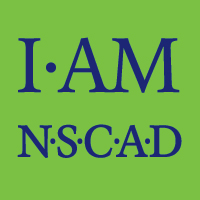 I AM NSCAD Logo.